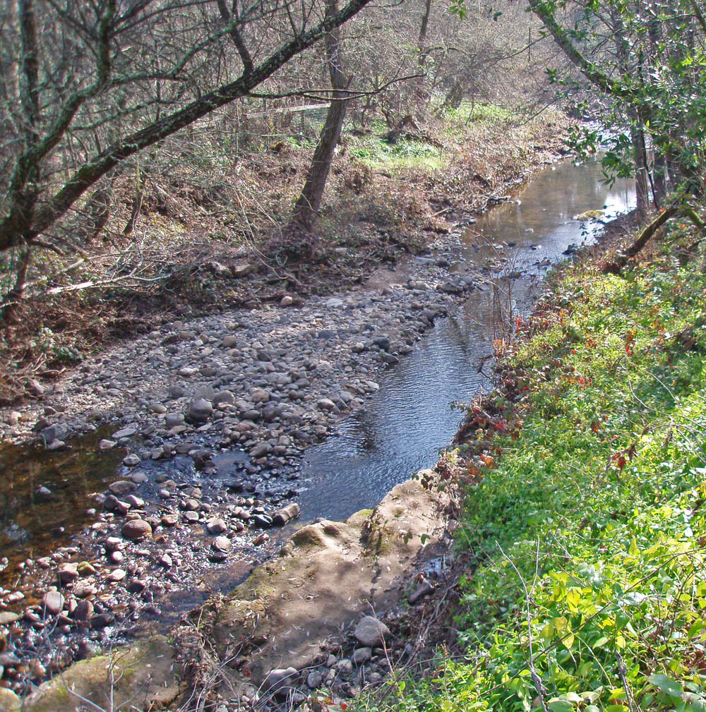 Calabazas Creek steelhead run area immediately upstream of confluence with Sonoma Creek, Sonoma county, California; date: feb 3, 2007; photographer: c michael hogan; low resolution version of image.